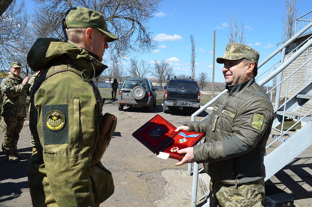 Stepan Poltorak awards Pavlo Chayka with Order For Courage 1st Class